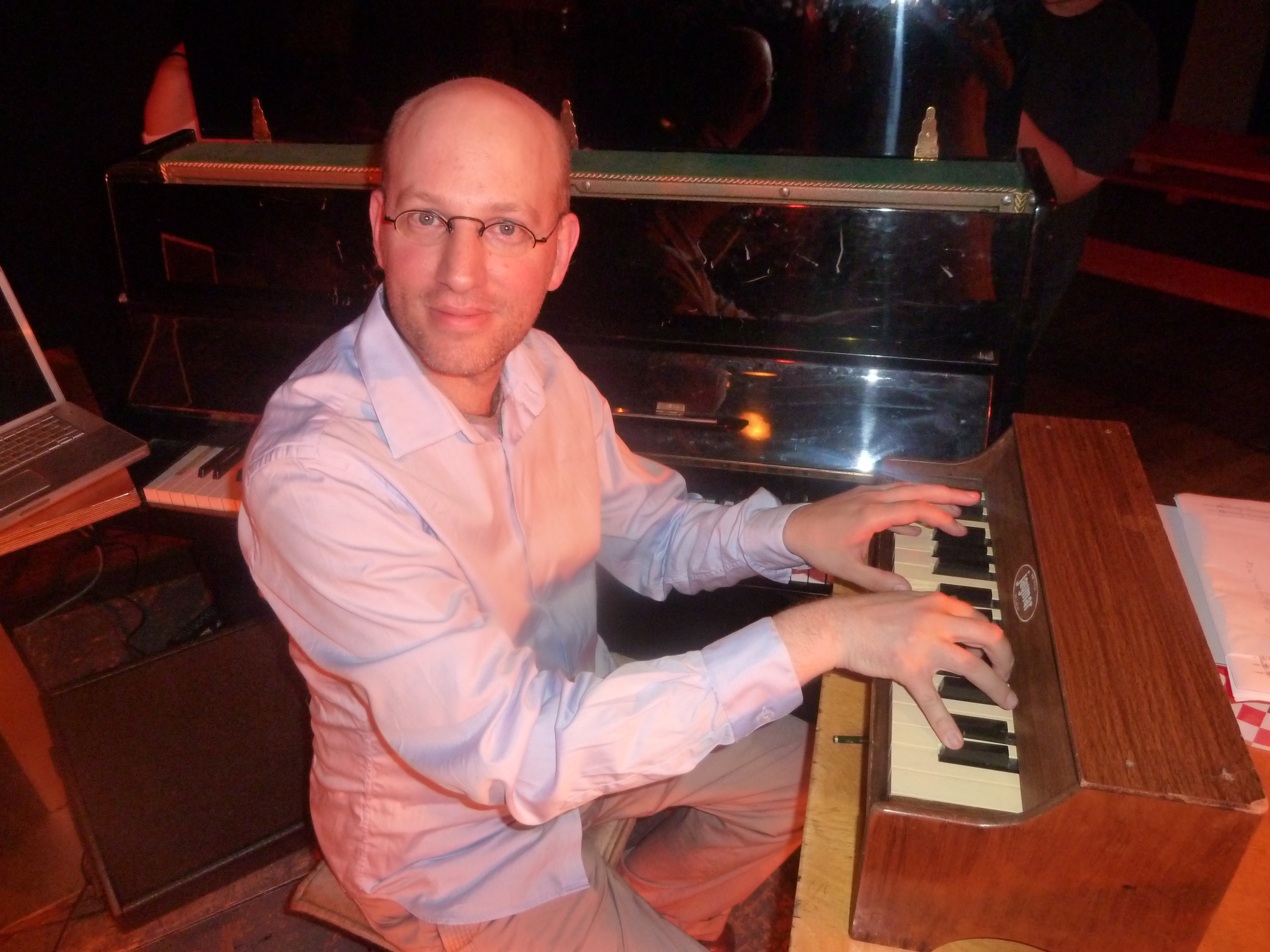 German composer Henrik Albrecht after performing with voice actor Jens Wawrczeck in Berlin